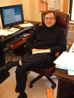 Cumrun Vafa in his office at Harvard University